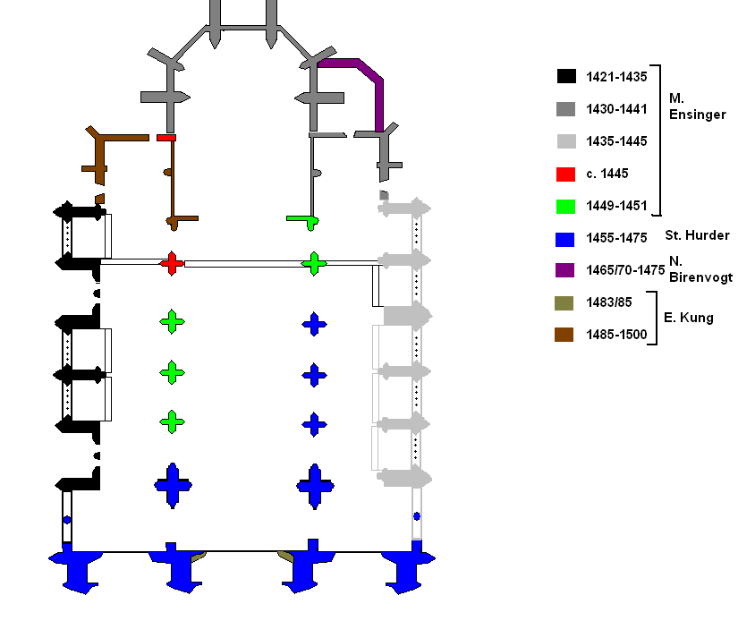 A floorplan of the Muenster of Bern. Successive construction periods are in different colors. Based on Luc Mojon, Band 4: Das Berner Münster pg 15